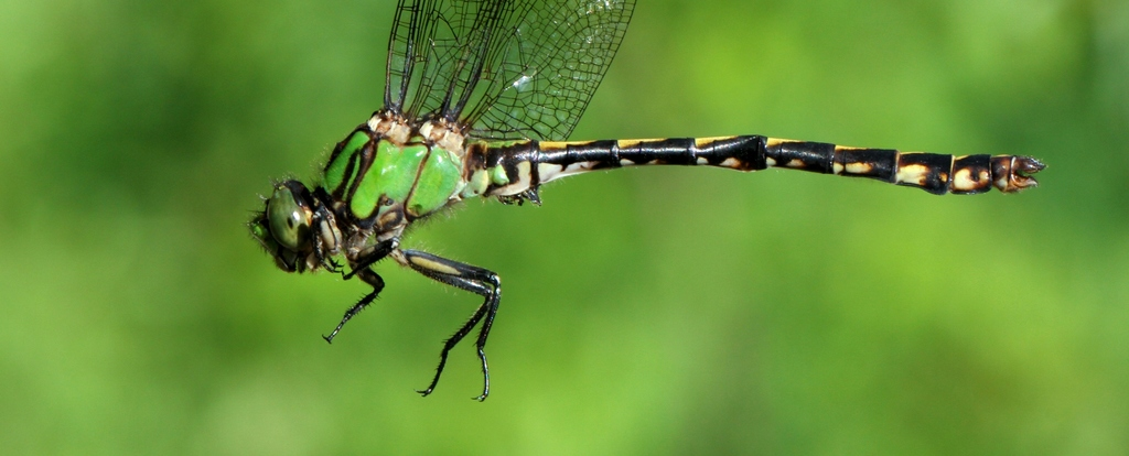 Brook Snaketail (Ophiogomphus aspersus), Saint-Camille-de-Lellis, Les Etchemins, QC, Canada